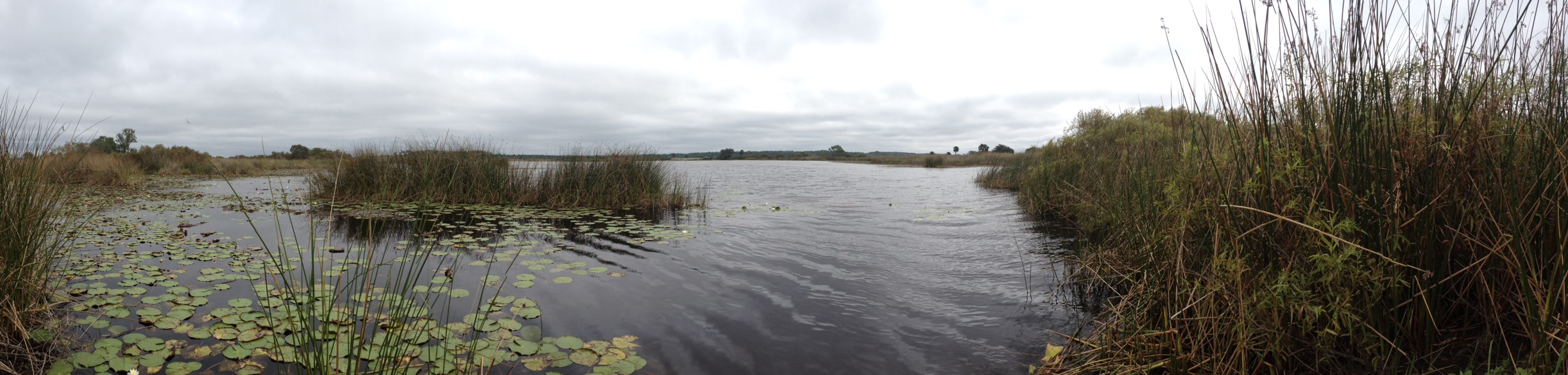 Panoramic shot of hiking in St. Marks National Wildlife Refuge